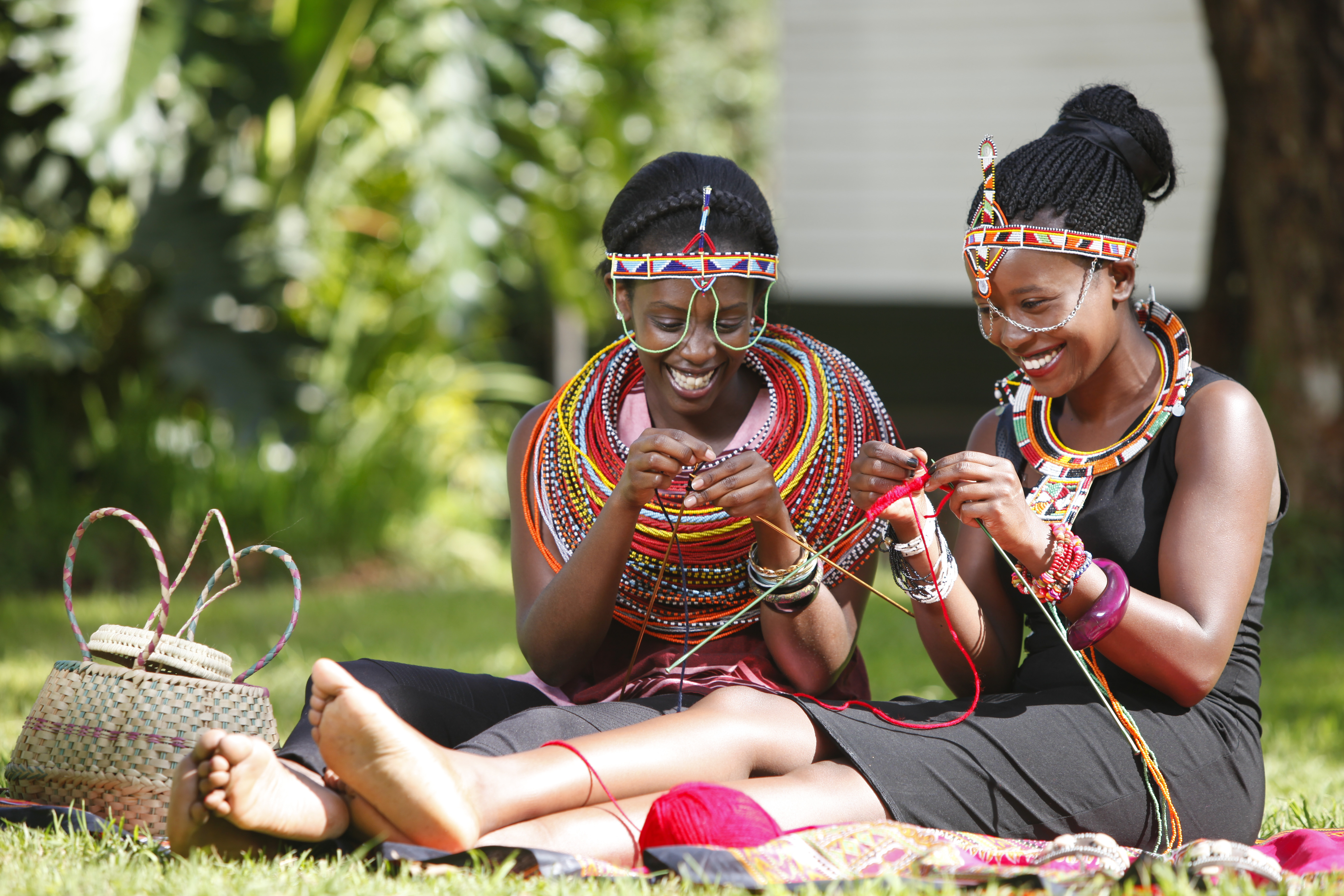 Another busy afternoon. This is an image of Cultural Fashion or Adornment from Kenya